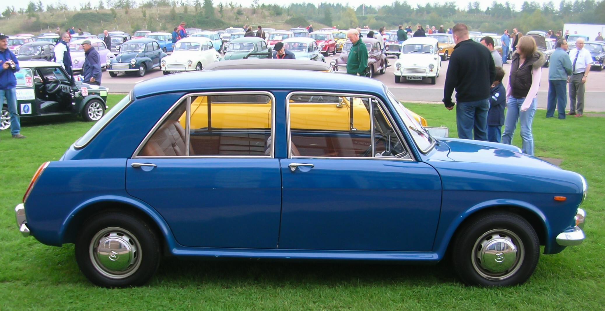 A 1974 Morris 1300. Photographed at the Alec Issigonis centenary rally at the Heritage Motor Centre, Gaydon, UK.